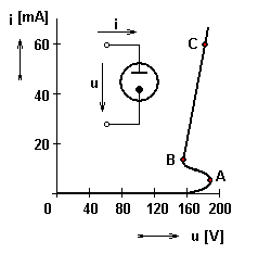 Neon lamp, volt-ampere characteristics